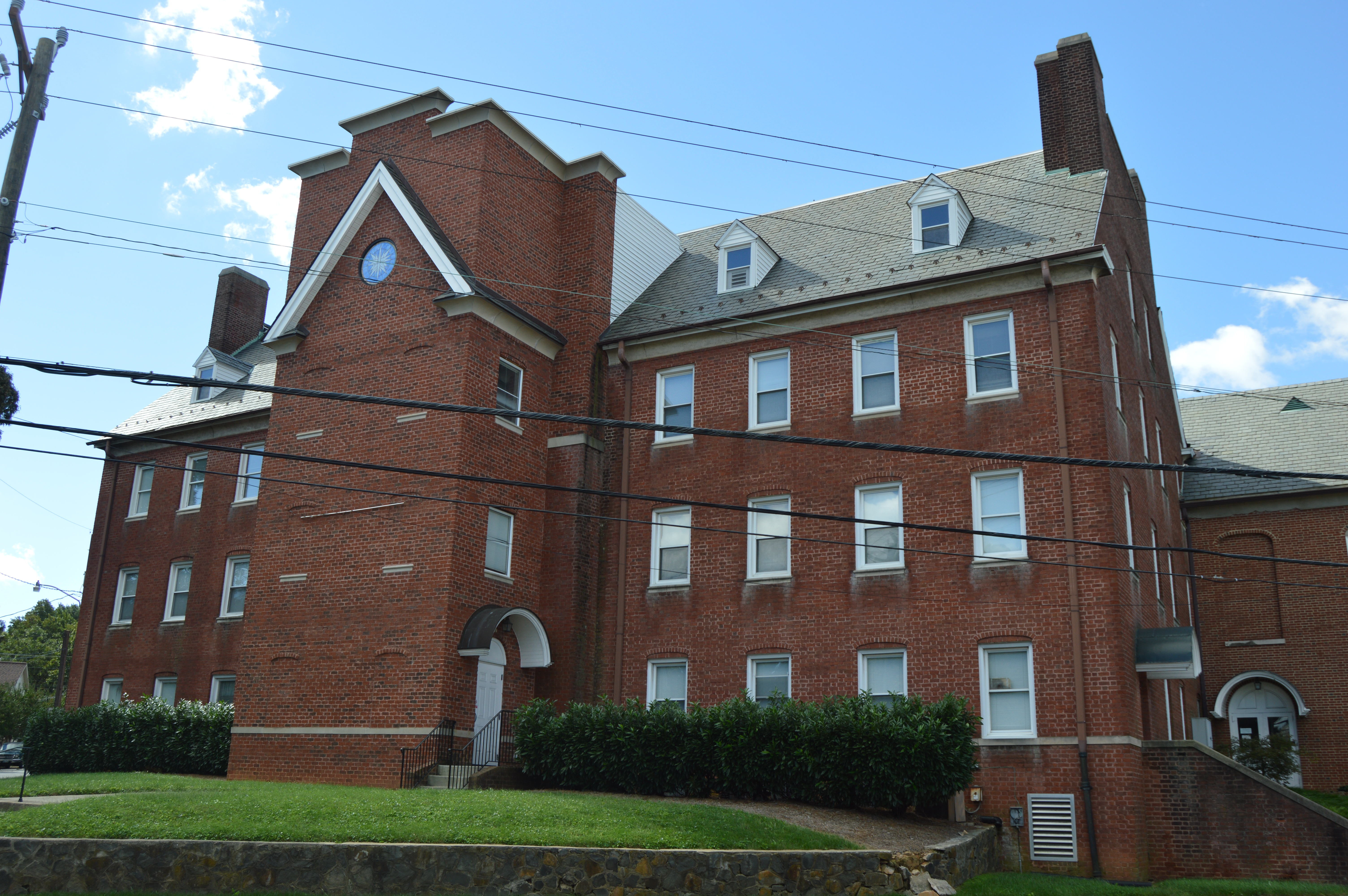 Rear of Trinity Moravian Church, located at 220 E. Sprague Street in Winston-Salem, North Carolina, United States. Built in 1911, it is part of the Sunnyside-Central Terrace Historic District, a historic district that is listed on the National Register of Historic Places.